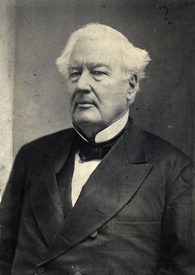 Millard Fillmore in later life.